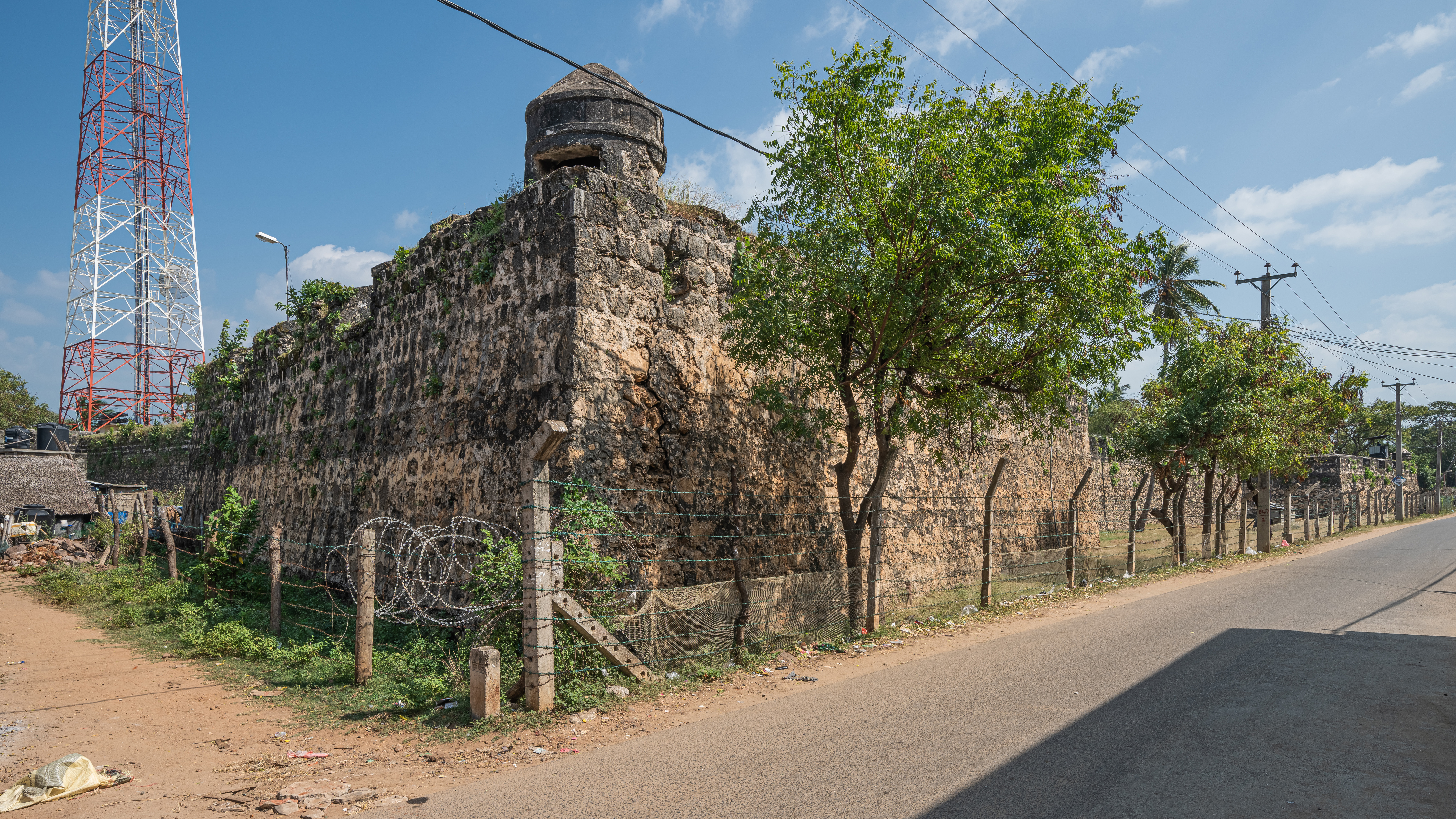 Wall of the Dutch Fort in Kalpitiya, Sri Lanka